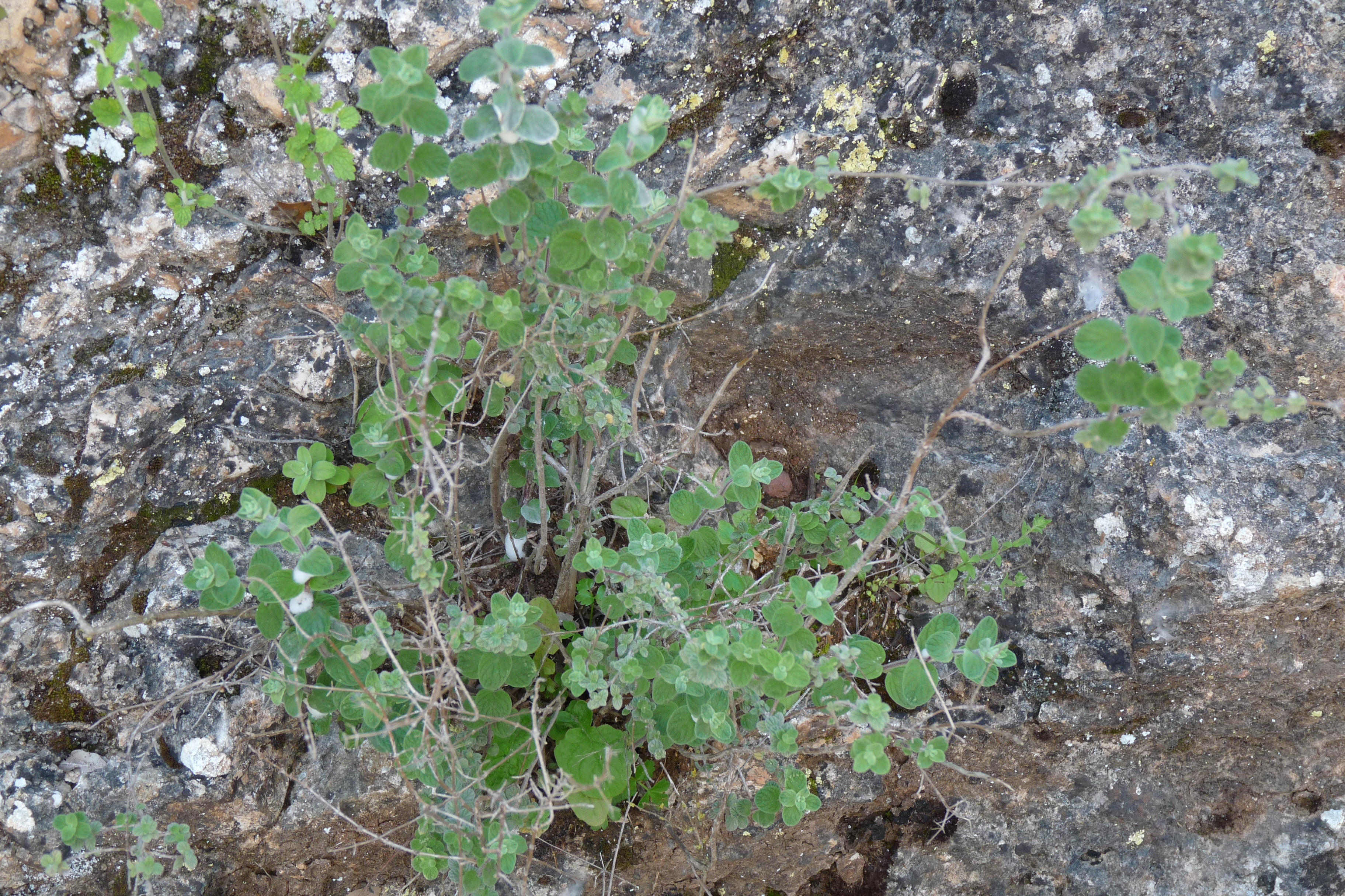 Origanum syriacum in northern Israel